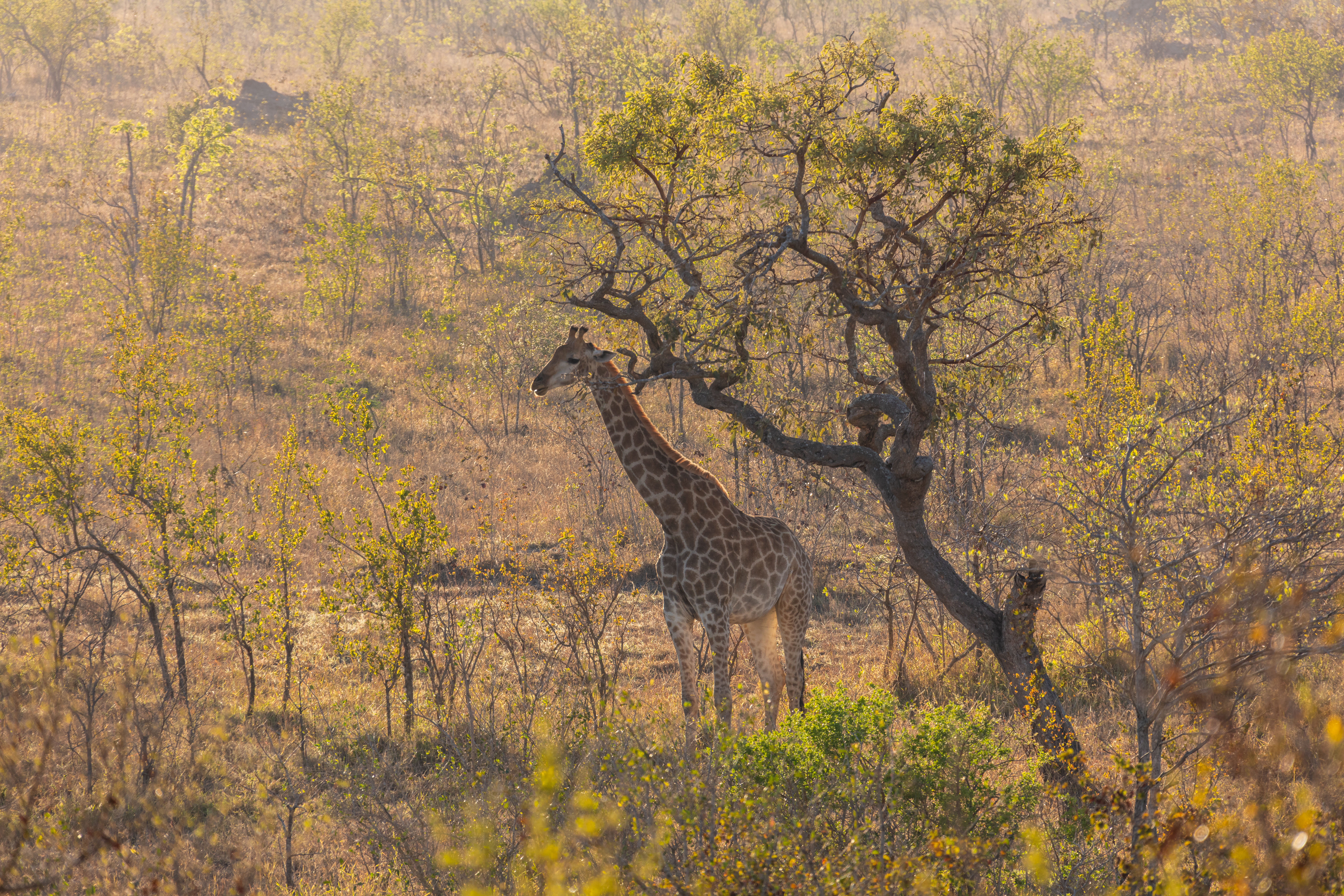 Northern giraffe (Giraffa camelopardalis), Kruger National Park, South Africa